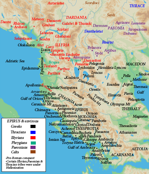 Map of Epirus in classical antiquity (situation of ca. the 4th century BC).